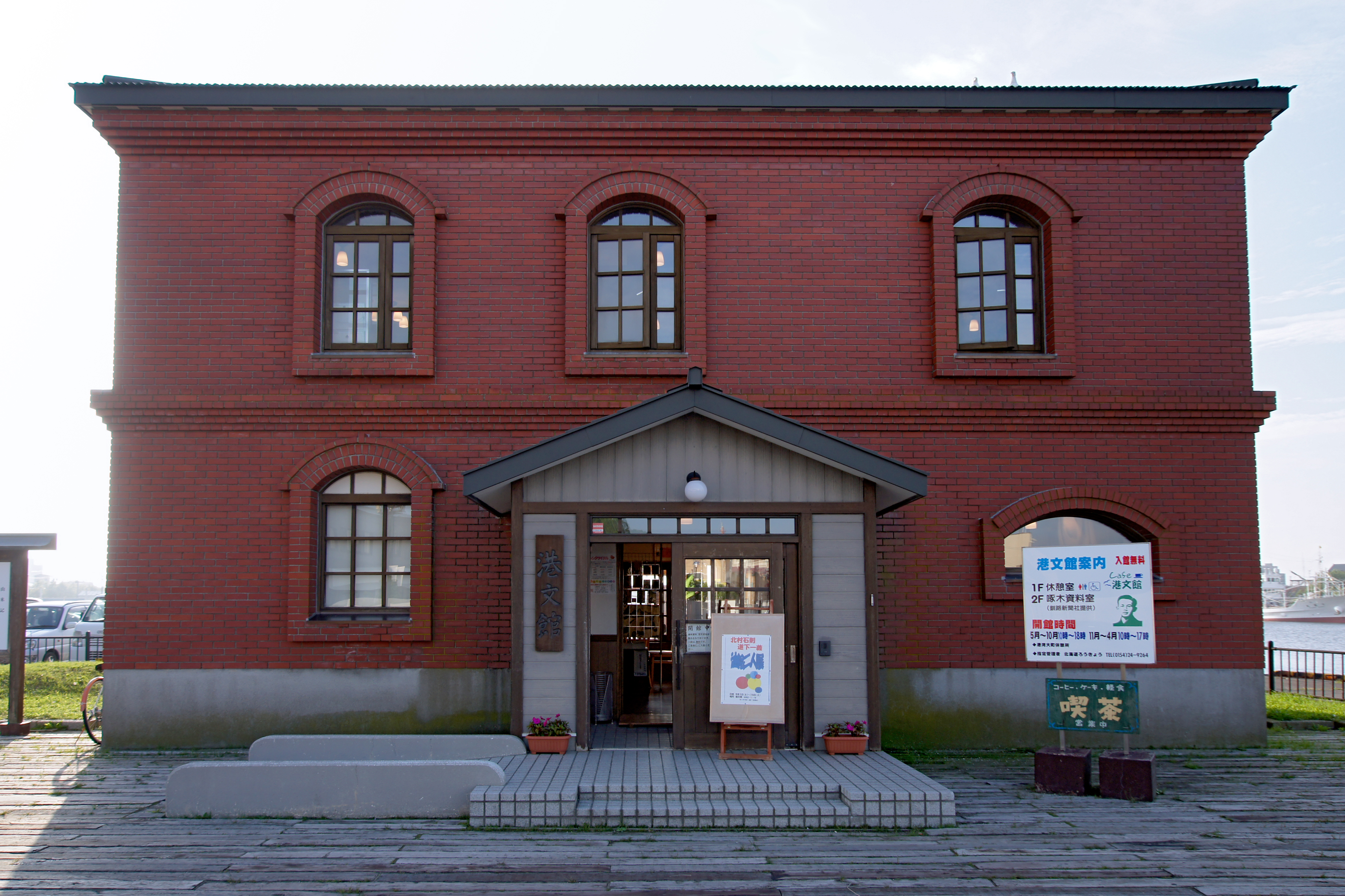 Kobunkan in Kushiro City, Hokkaido prefecture, Japan